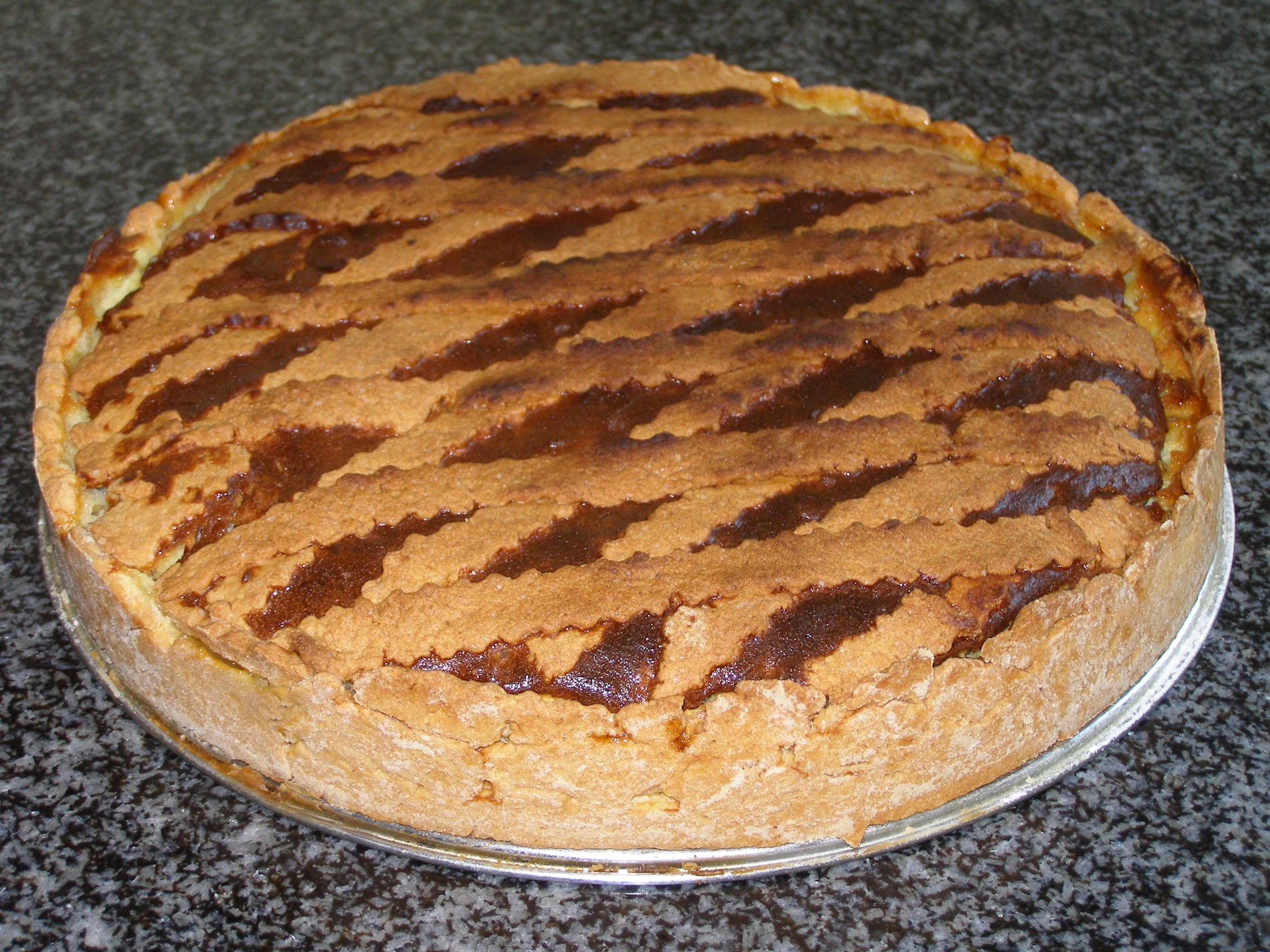 A pastiera napoletana, a Napoli's cake.